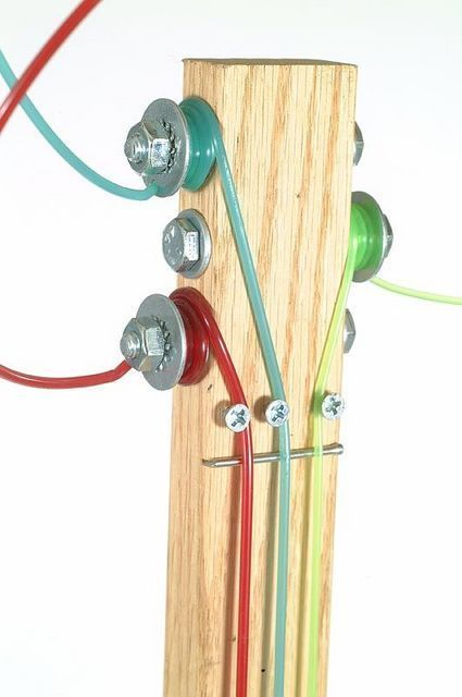 This is the top of the box bass headstock featuring the unique Friction Tuners""